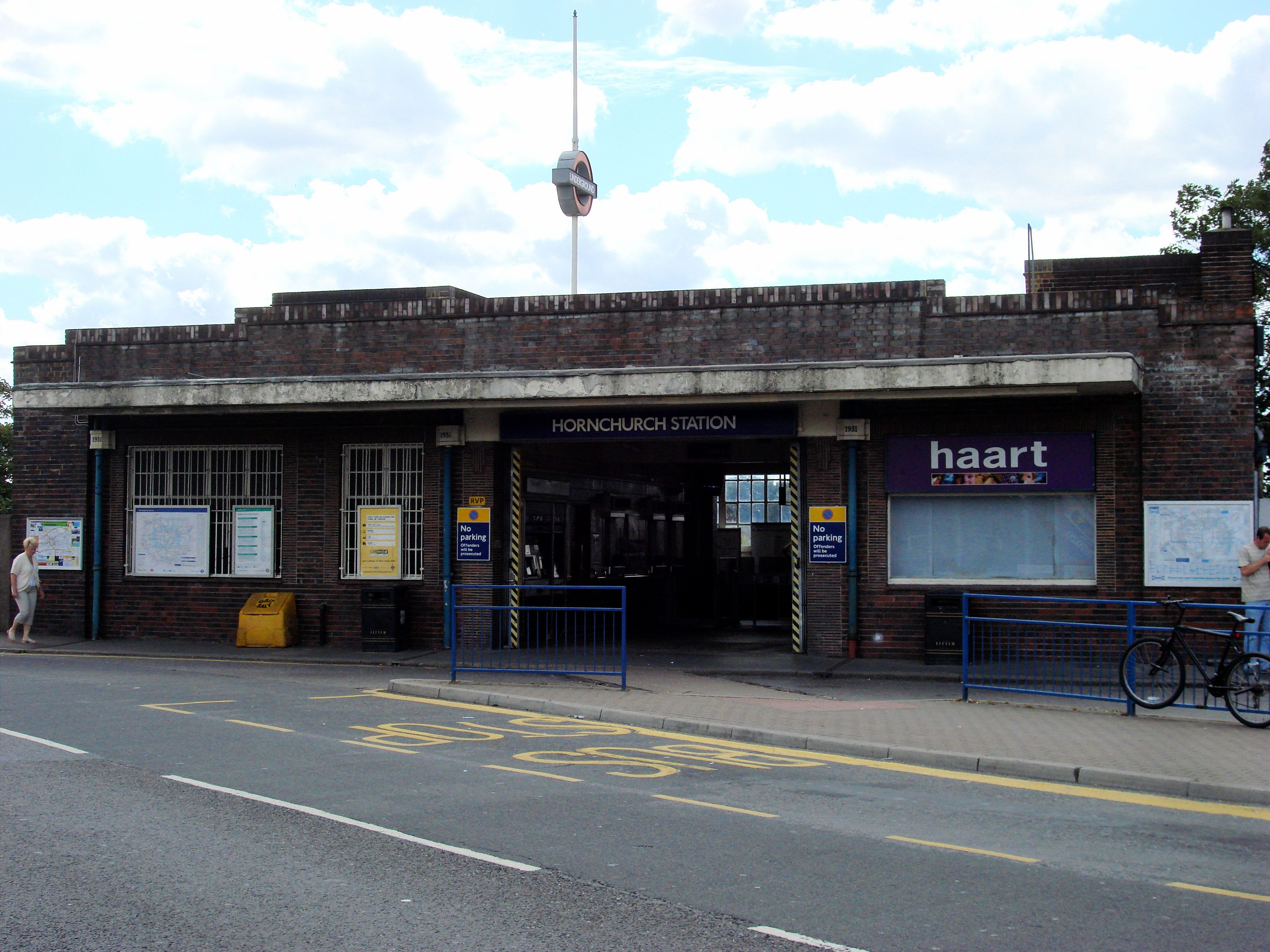 Hornchurch tube station, main building